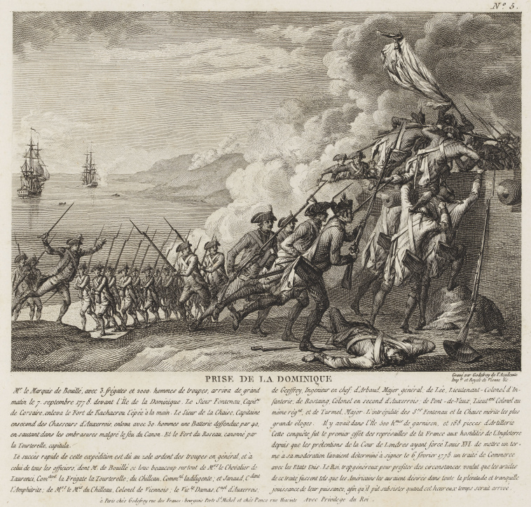 Taking the island of Dominica in 1778 by troops of the Marquis de Bouille. Engraving published in Paris in 1784.